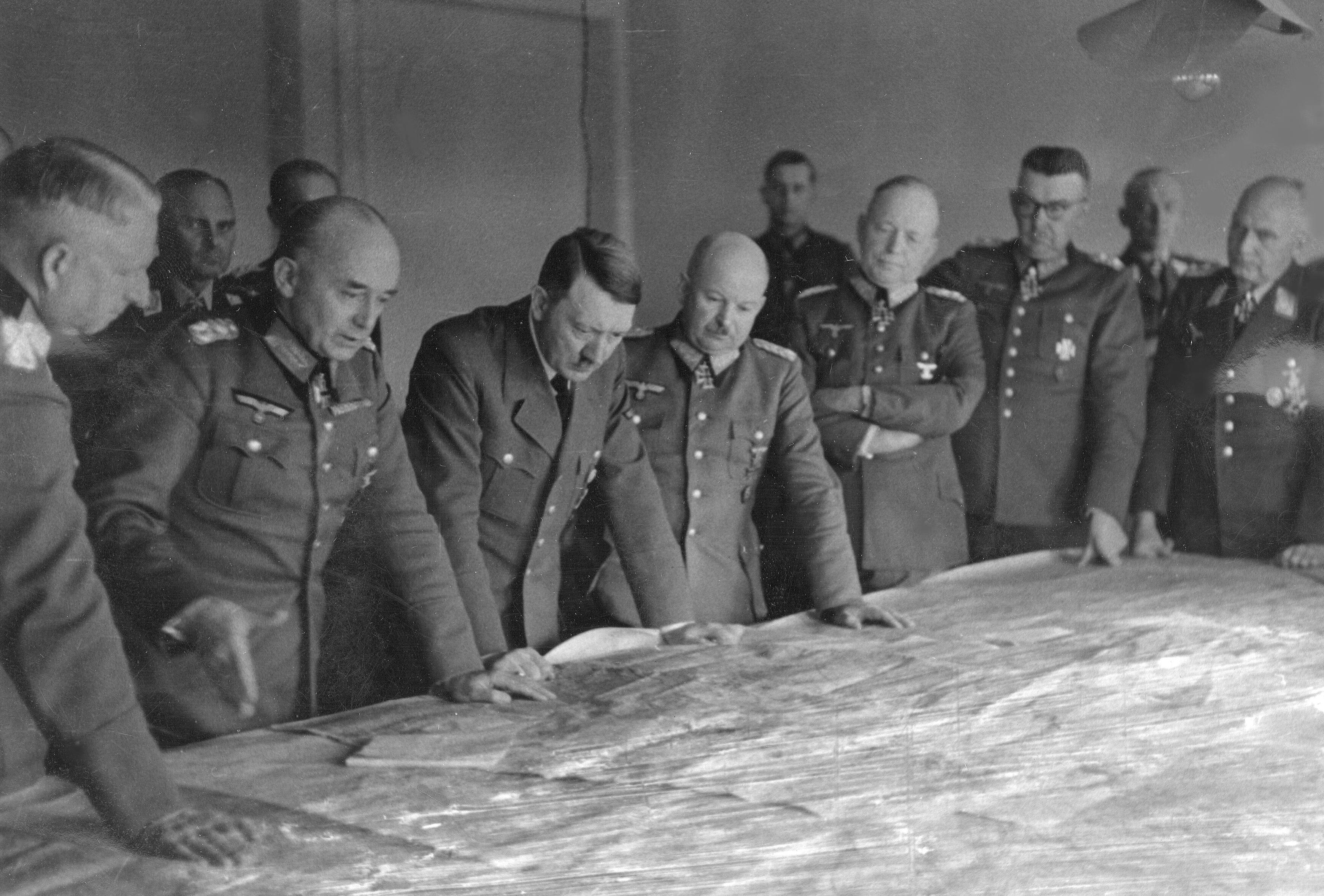 Adolf Hitler during a meeting with officers. Above the map from the left: Marshal Erich von Manstein, General Richard Ruoff, Adolf Hitler, General Kurt Zeitzler, Marshal Ewald von Kleist.